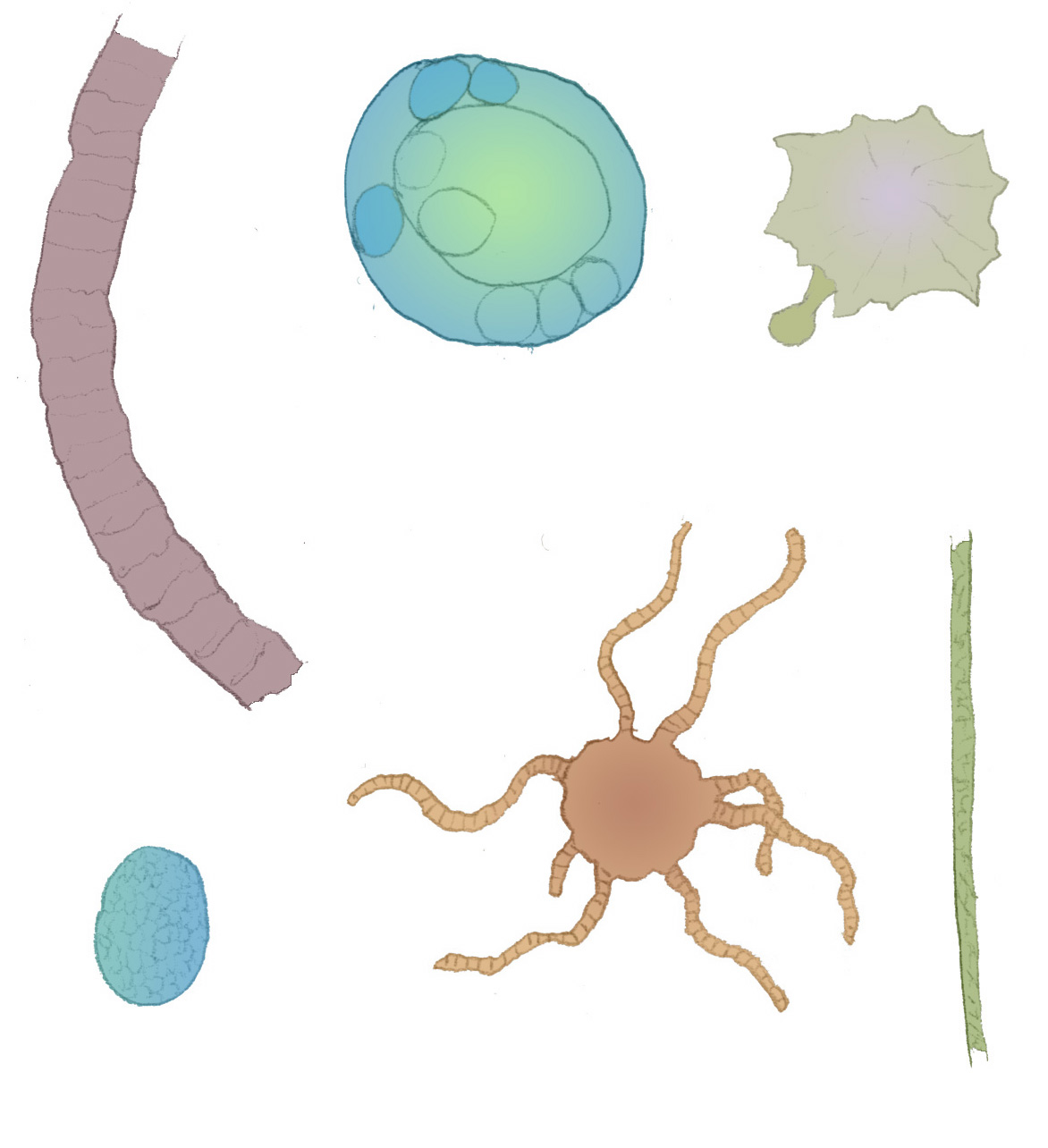 Fossils from Gunflint Iron Fm., Canada